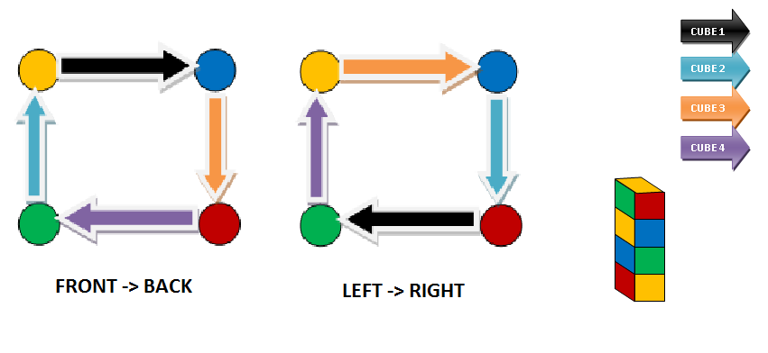 The images are steps to solve the instant sanity problem